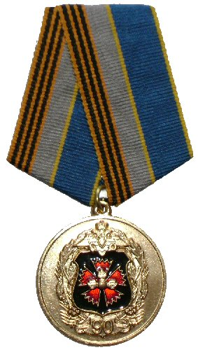 Commemorative Medal "90 Years of Military Intelligence". Award of the Defense Ministry of the Russian Federation. Instituted in 2008.